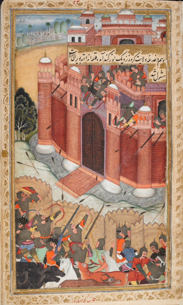 The "Memoirs of Babur" or Baburnama are the work of the great-great-great-grandson of Timur (Tamerlane), Zahiruddin Muhammad Babur (1483-1530). The Baburnama tells the tale of the prince's struggle first to assert and defend his claim to the throne of Samarkand and the region of the Fergana Valley. After being driven out of Samarkand in 1501 by the Uzbek Shaibanids, he ultimately sought greener pastures, first in Kabul and then in northern India, where his descendants were the Moghul (Mughal) dynasty ruling in Delhi until 1858. The miniatures are from an illustrated copy of the Baburnama prepared for the author's grandson, the Mughal Emperor Akbar. It is worth remembering that the miniatures reflect the culture of the court at Delhi; hence, for example, the architecture of Central Asian cities resembles the architecture of Mughal India. Nonetheless, these illustrations are important as evidence of the tradition of exquisite miniature painting which developed at the court of Timur and his successors. Timurid miniatures are among the greatest artistic achievements of the Islamic world in the fifteenth and sixteenth centuries. Illustrations of Mughals from the Baburnama